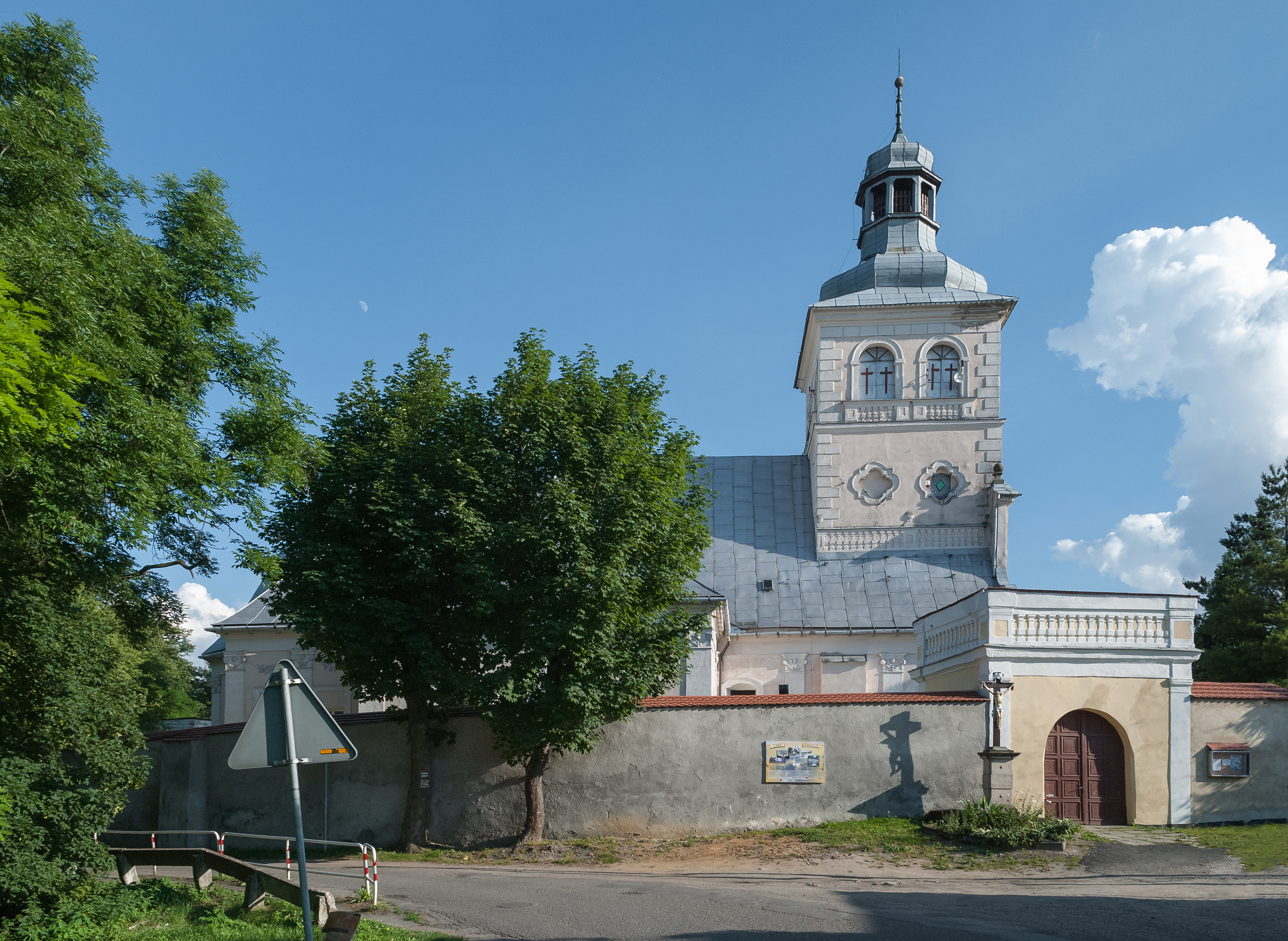 Mary Magdalene church in Gorzanów